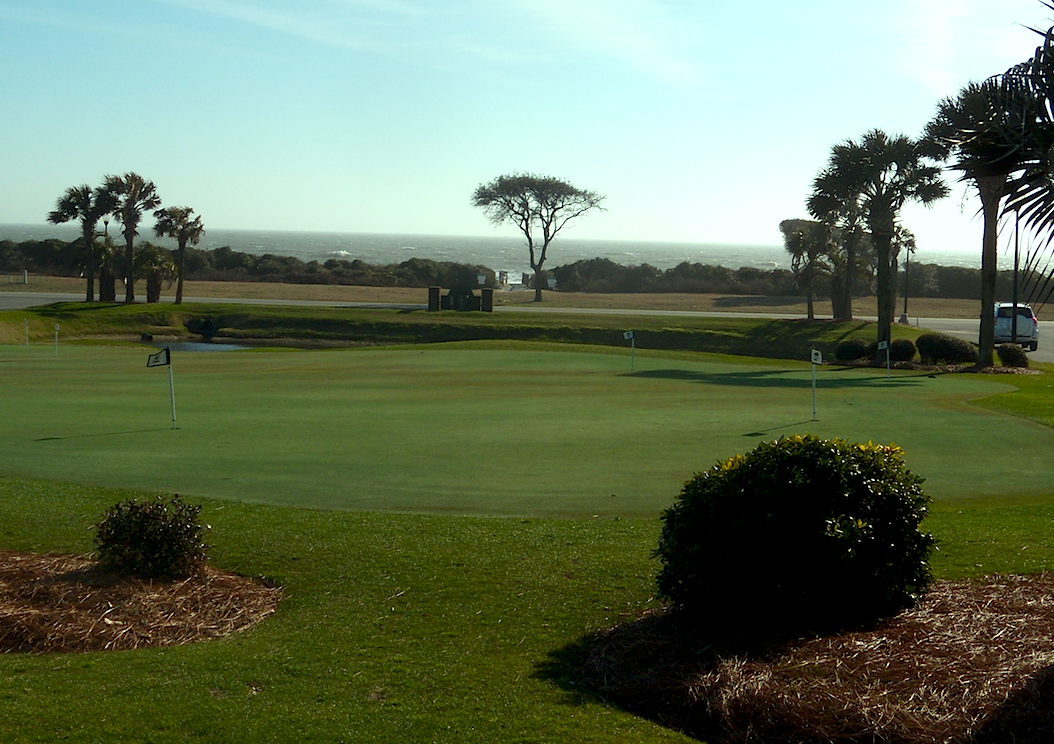 Looking south towards the Atlantic Ocean, Caswell Beach, North Carolina